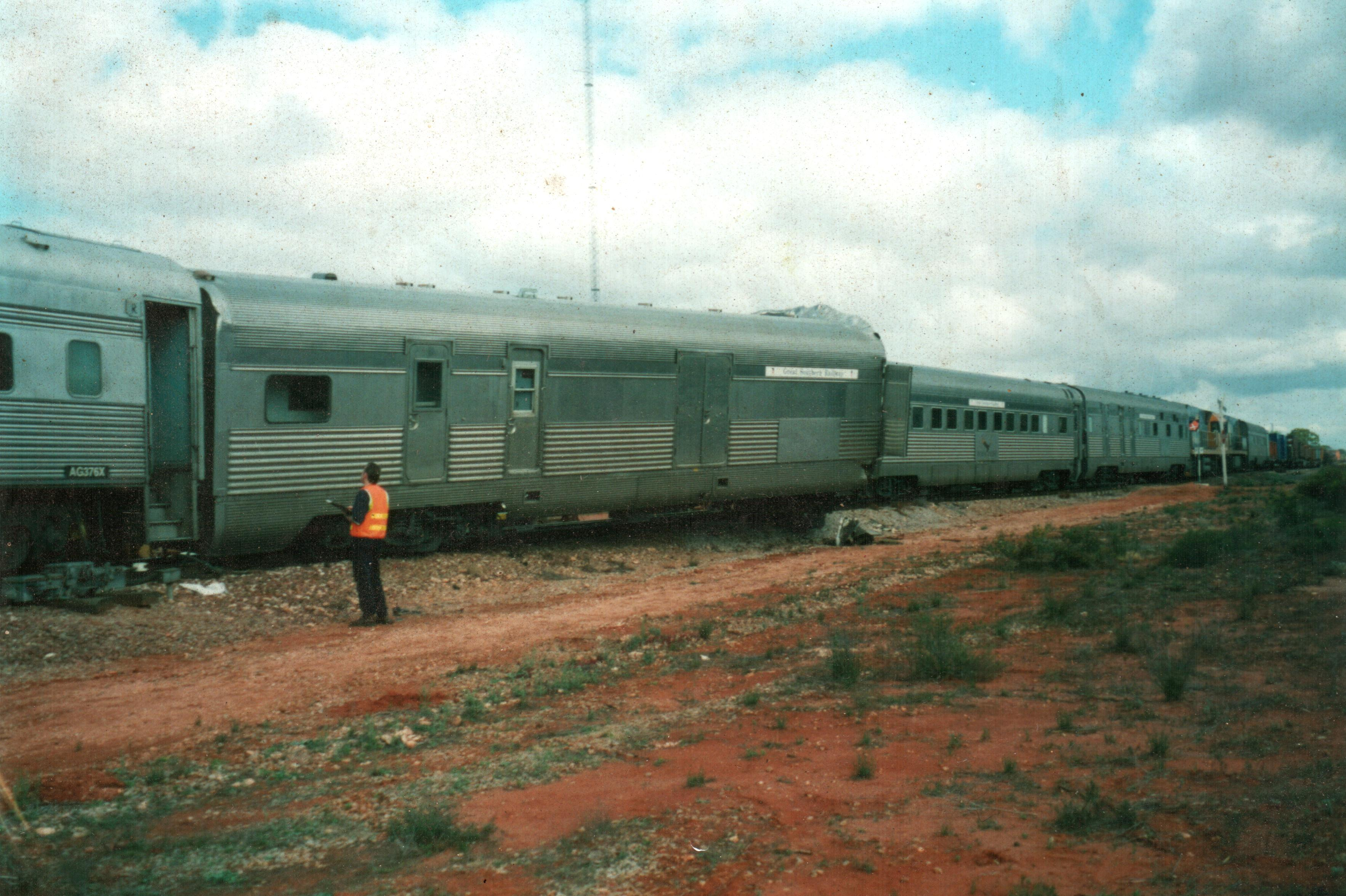 Zanthus, Western Australia, Showing the Indian Pacific train with derailed carriages